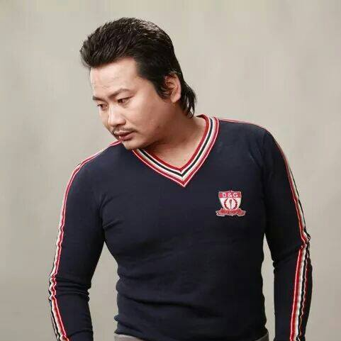 नेपाली: Bhuwan Suptihang Rai Is a Nepali Singer and Best composser